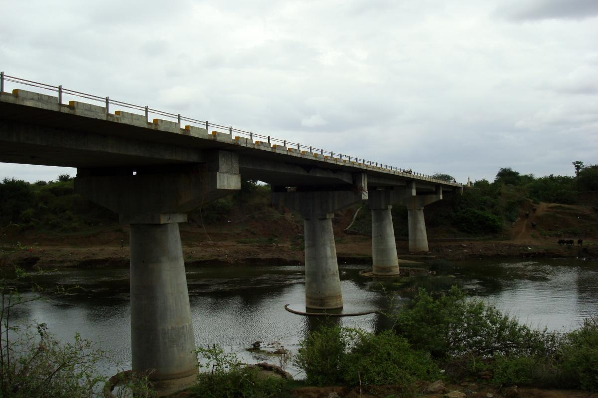 Bridge on the highway near Pulgaon